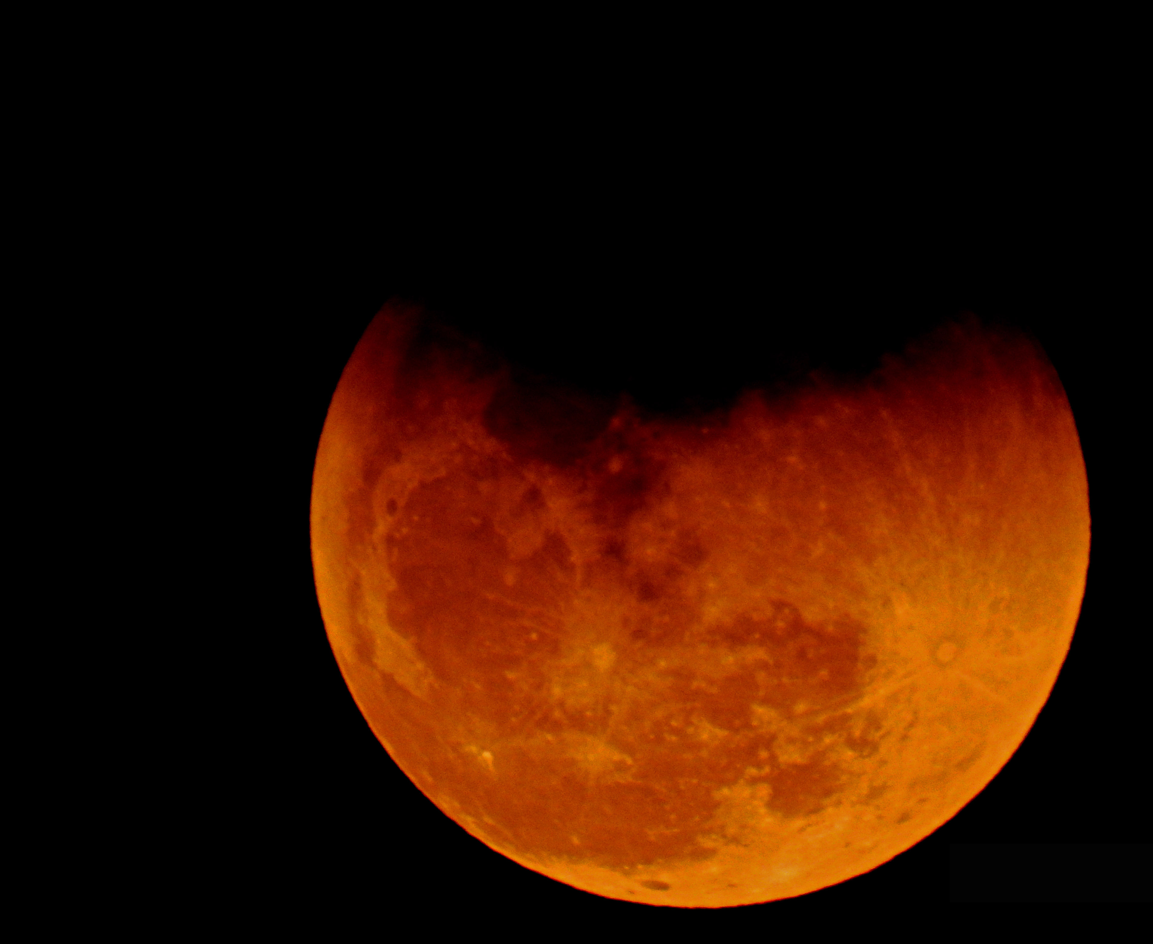 eclipse and Super blue blood moon 31.01.2018 clicked from kuwait by irvin calicut